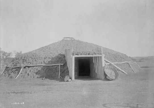 Mandan lodge, North Dakota. c. 1908. From the Edward S. Curtis Collection Library of Congress.